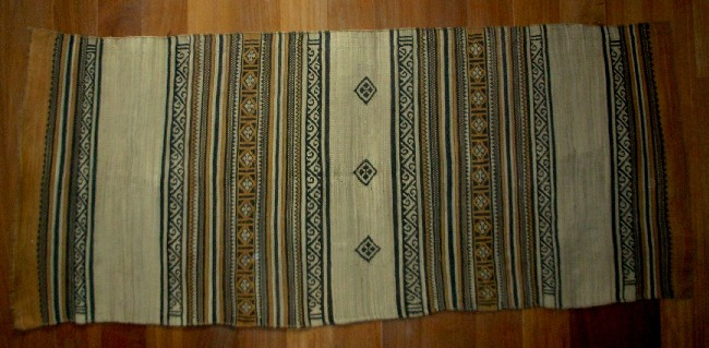 Good quality mat from Gaddu Island, Huvadu Atoll. Woven by a woman in Gaddu in the 1980s especially for my mother who passed away in November 2004.